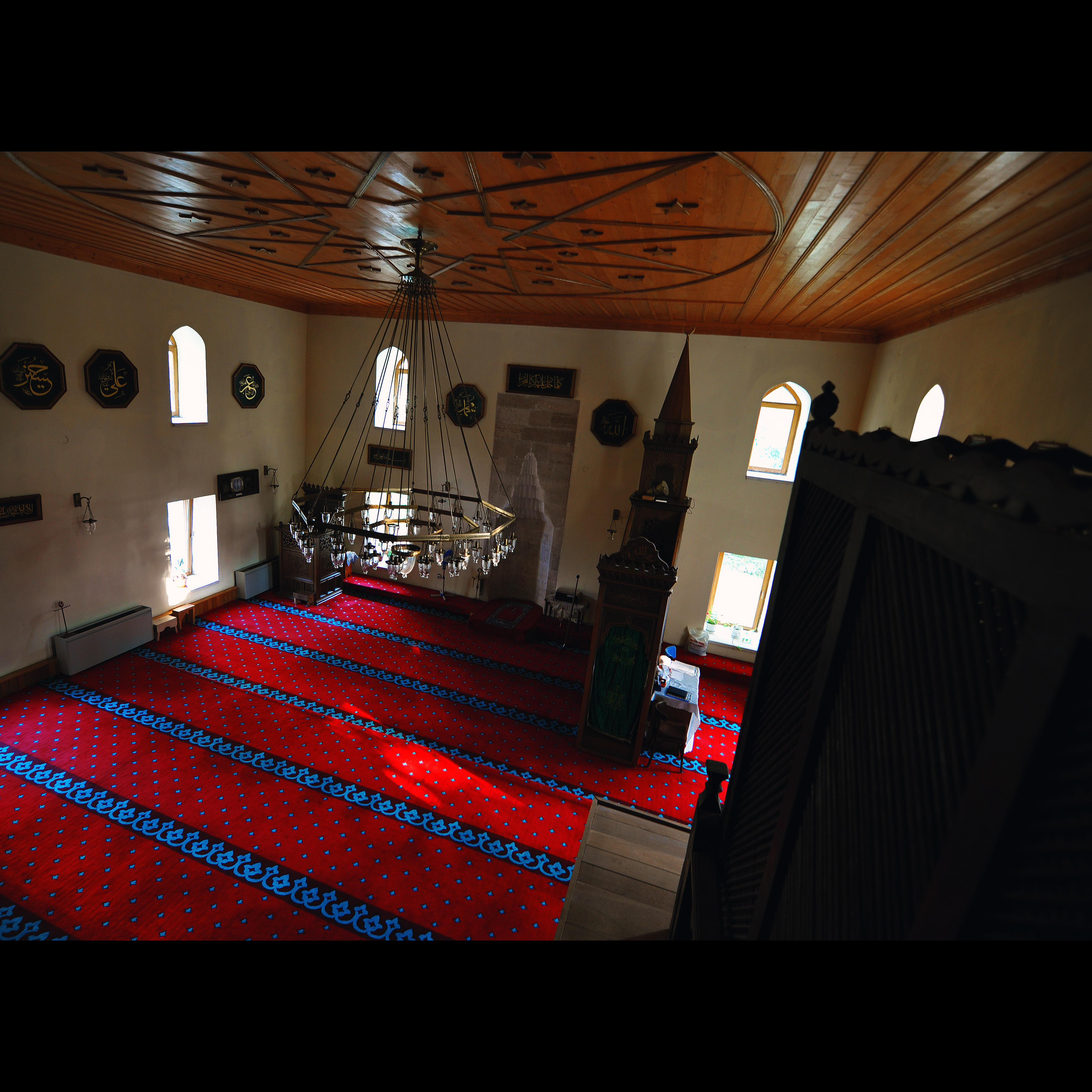 Built in 1575 by Esmahan, the daughter of Ottoman sultan Selim II it is the oldest Muslim place of worship in Dobruja and Romania. Located in Mangalia, Constanţa County, it serves a community of 800 Muslim families, most of them of Turkish and Tatar ethnicity. It was renovated in the 1990s and includes a graveyard with 300-year old tombstones.